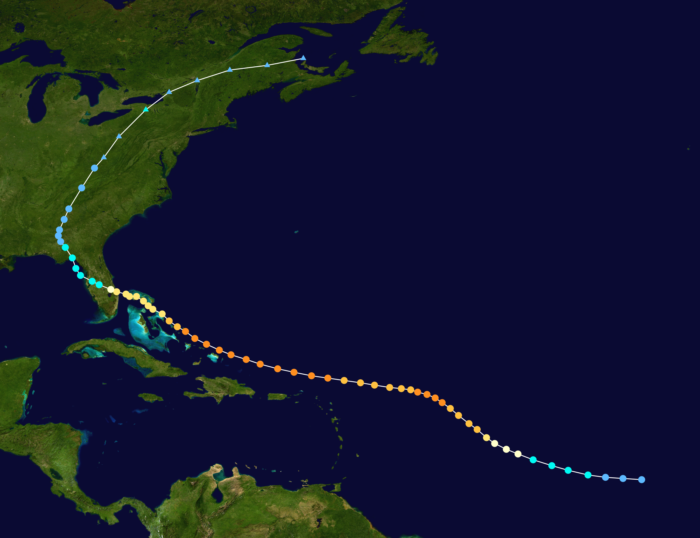 Track map of Hurricane Frances of the 2004 Atlantic hurricane season. The points show the location of the storm at 6-hour intervals. The colour represents the storm's maximum sustained wind speeds as classified in the Saffir–Simpson scale (see below), and the shape of the data points represent the nature of the storm, according to the legend below. Saffir–Simpson scale Tropical depression≤38 mph≤62 km/h Category 3111–129 mph178–208 km/h Tropical storm39–73 mph63–118 km/h Category 4130–156 mph209–251 km/h Category 174–95 mph119–153 km/h Category 5≥157 mph≥252 km/h Category 296–110 mph154–177 km/h Unknown Storm type Tropical cyclone Subtropical cyclone Extratropical cyclone / Remnant low / Tropical disturbance / Monsoon depression